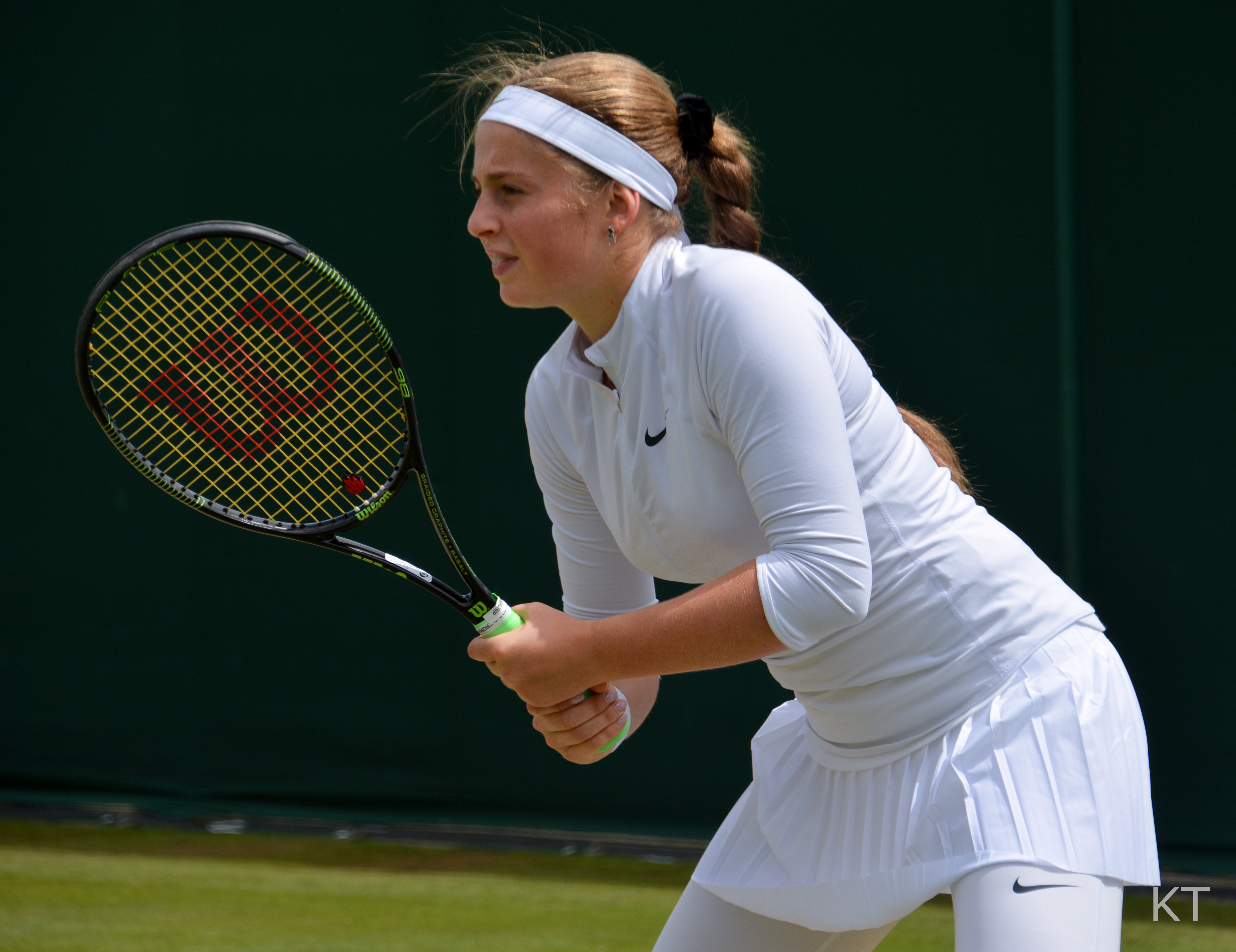 Middle Sunday of Wimbledon 2016.